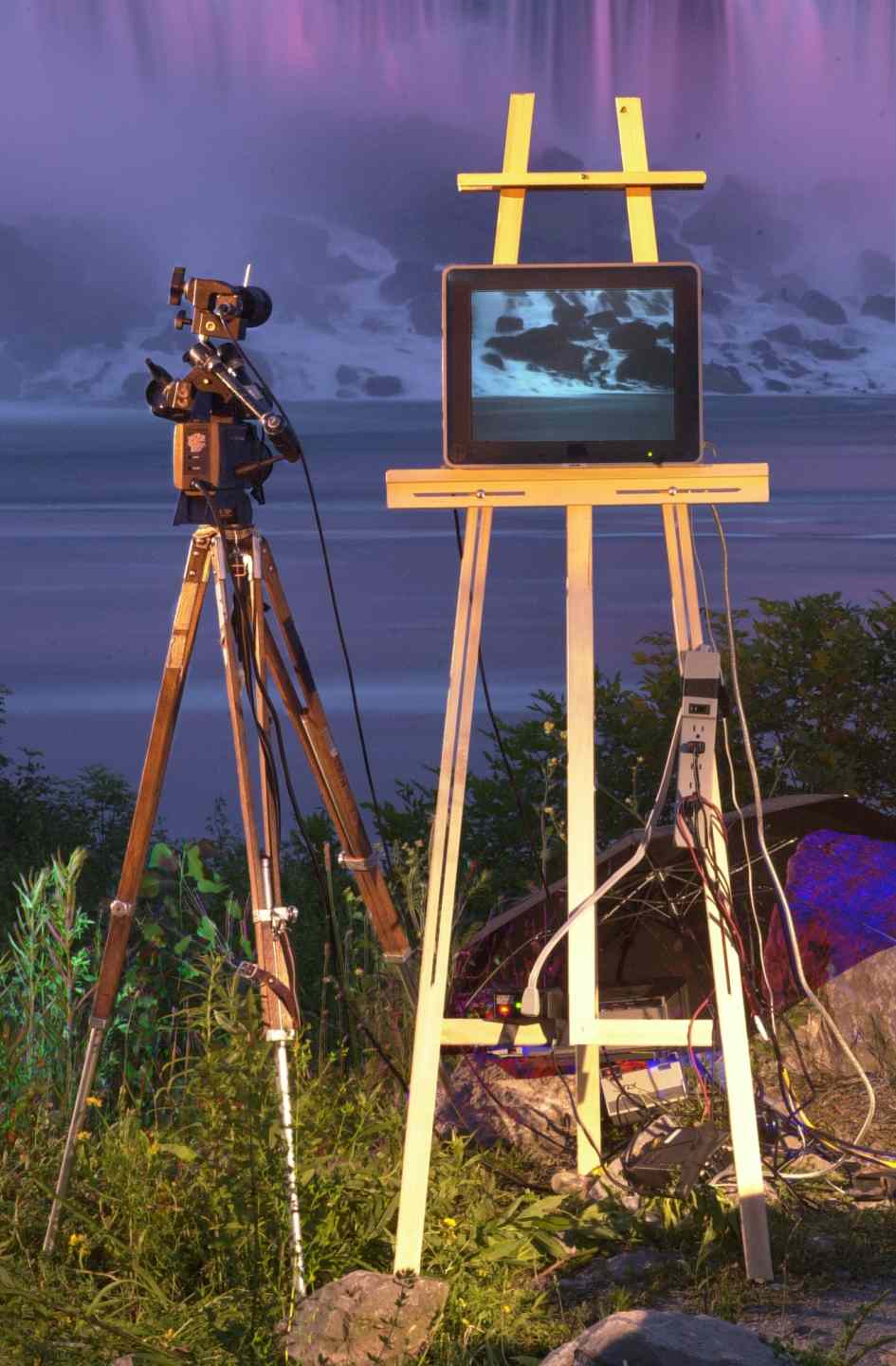 Mediated Reality as illusory transparency This is a picture I took at the base of Niagara Falls, which itself is perhaps the world's most photographed subject. I took this picture as a cover shot for my book, but the book publisher ended up using a different one of my pictures (a picture I took of the Brooklyn Bridge in New York). I still use this picture to illustrate mediated reality, e.g. replacing reality with what's really there... Full resolution version may be found in (this version's downsampled and severely compressed to fit within the 100k byte Wikipedia suggested maximum filesize)